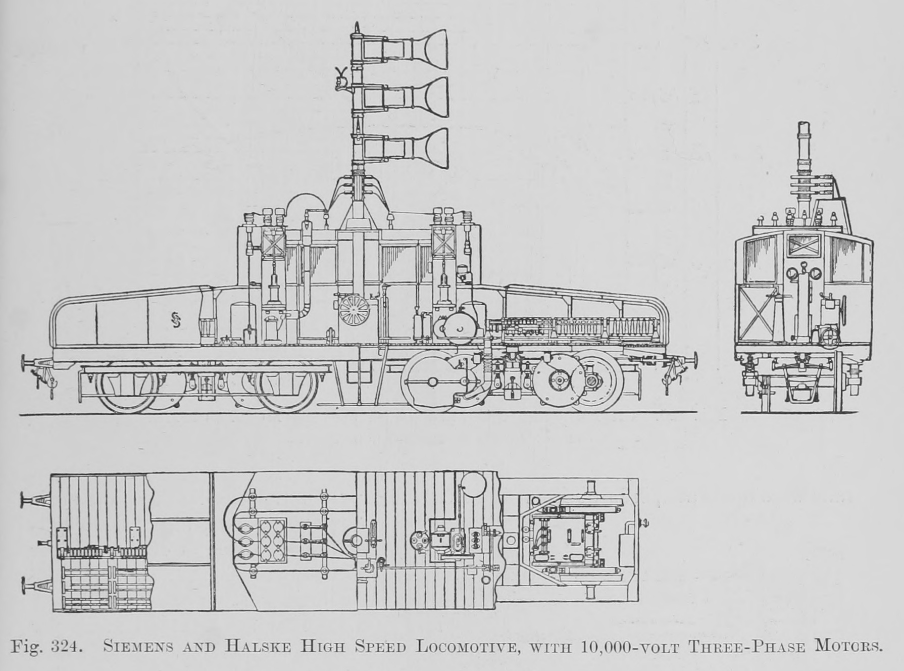 see image title - first number is figure or diagram number. See list of illustrations in source for page number in source - relevent text content is near to image in the source